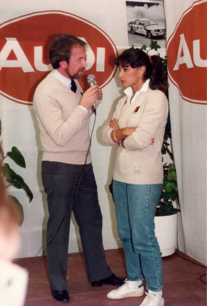 Michèle Mouton is interviewed at JB Volkswagen in Cardiff on the eve of the 1985 Welsh International Rally.